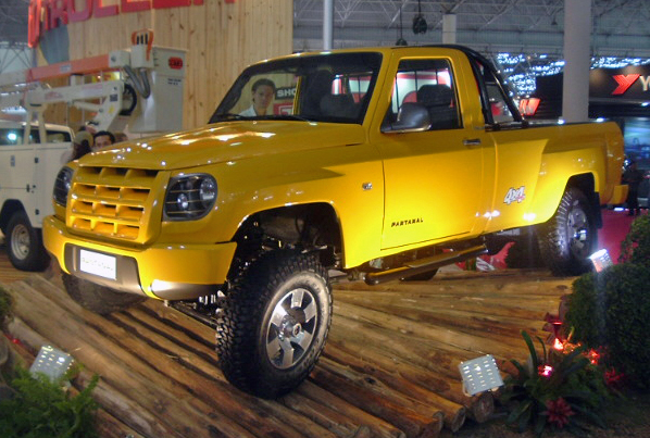 A Troller Pantanal at the 2004 Salão do Automovel in São Paulo